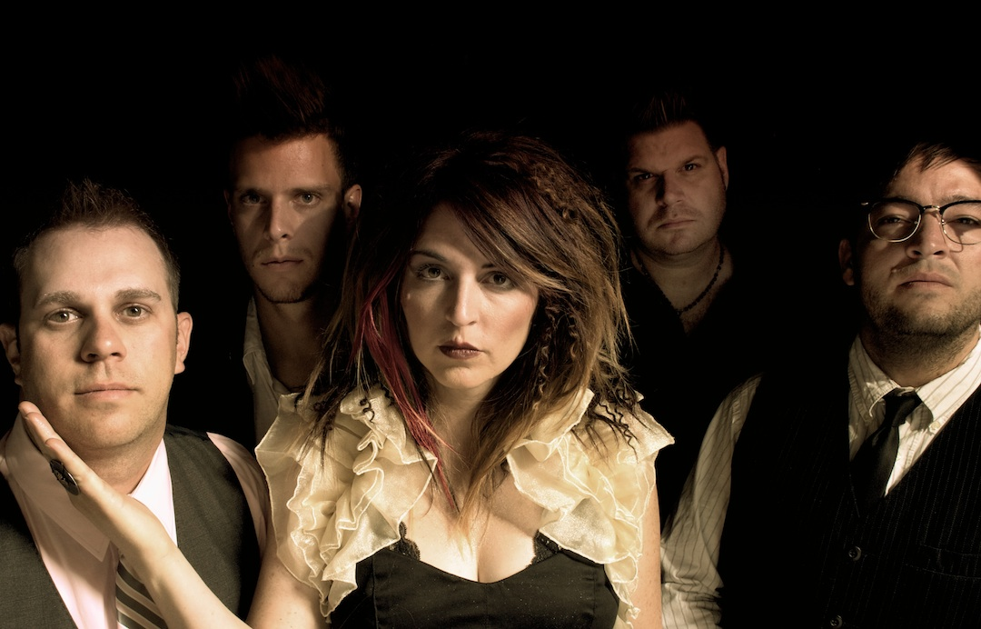 Promotional photograph of the U.S. band The Echoing Green.